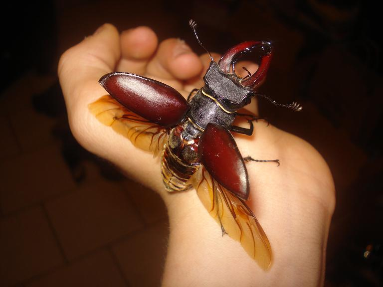 A 55mm long male of Lucanus cervus.